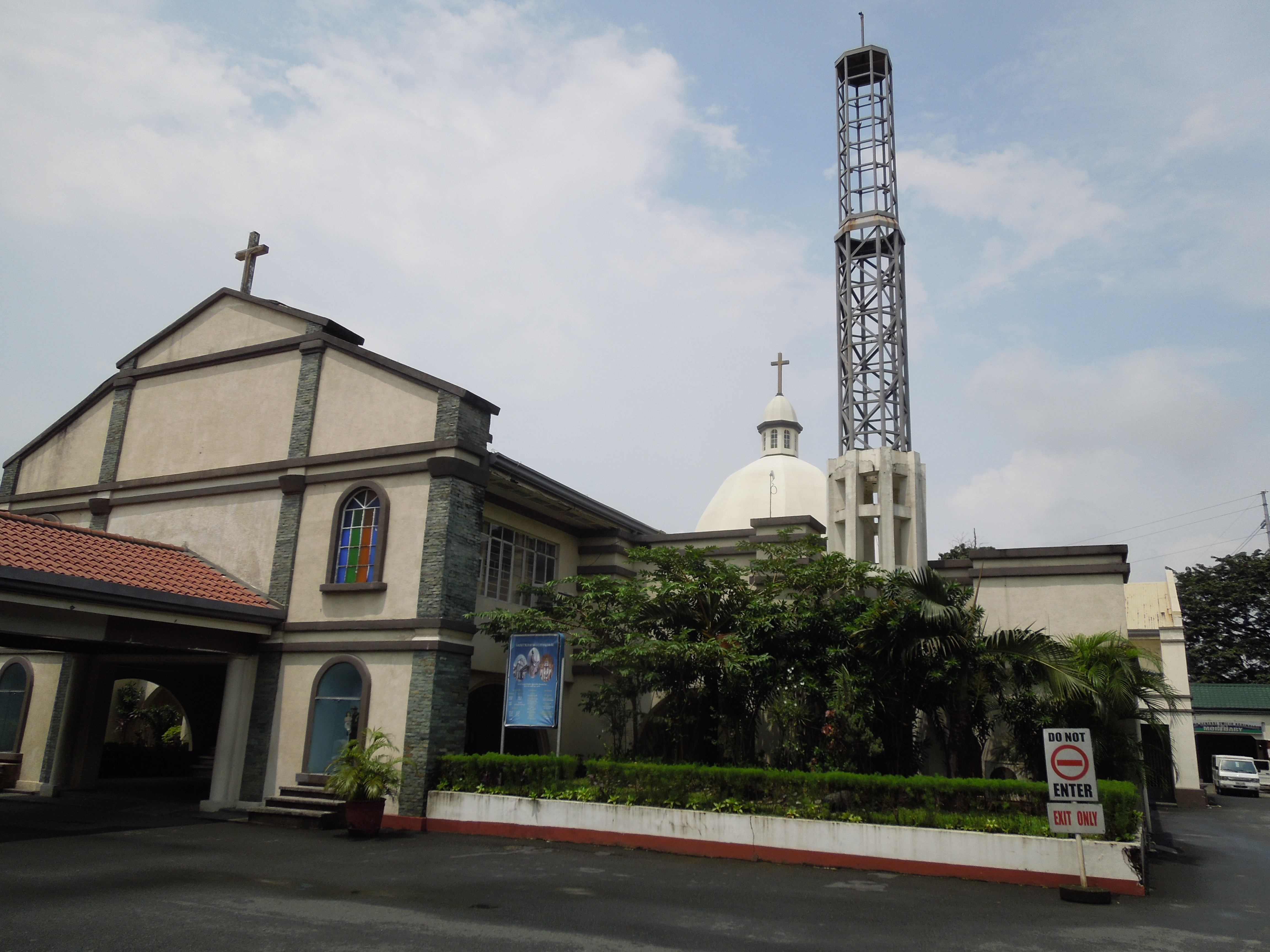 Camp Aguinaldo AFP Museum and Multi-Purpose Theater or Armed Forces of the Philippines Museum List of theaters and concert halls in Metro Manila List of concert halls Camp Aguinaldo Camp General Emilio Aguinaldo (CGEA) General Headquarters Building of the AFP, Quezon City Philippine National Police Arturo Enrile Bulwagang Heneral Arturo T. Enrile Chief of Staff of the Armed Forces of the Philippines St. Ignatius Cathedral (Camp General Emilio Aguinaldo, GQ AFP, Quezon Ciy) Rehabilitated in 1993 under Lisandro C. Abadia completed Inaugurated December 16, 1995 under Arturo Enrile Military Ordinariate of the Philippines in the List of barangays of Metro Manila Legislative districts of Quezon City Districts 3, Barangays of Quezon City, Socorro, Quezon City and Bagong Lipunan ng Crame, District III, Cubao, Quezon City, along Bonny Serrano Avenue corner EDSA (Epifanios de los Santos Avenue) (Note: Judge Florentino Floro, the owner, to repeat, Donor Florentino Floro of all these photos hereby donate gratuitously, freely and unconditionally all these photos to and for Wikimedia Commons, exclusively, for public use of the public domain, and again without any condition whatsoever).